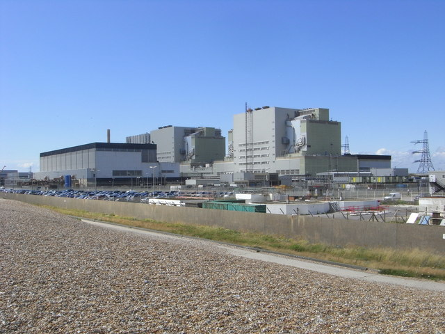 Dungeness Nuclear power station This is the now closed Dungeness A magnox plant. The Dungeness B AGR is just visible as the tall building on the left above the rectangular turbine hall. More information can be found here - Dungeness_nuclear_power_station